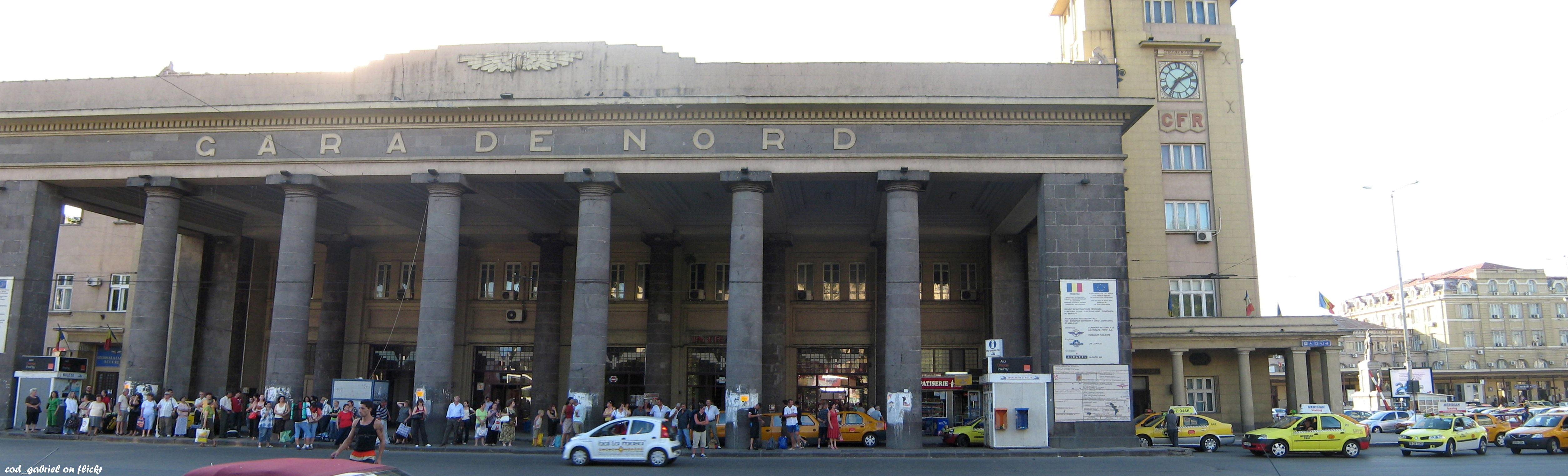 The following is the author's description of the photograph quoted directly from the photograph's Flickr page."O varianta indreptata (la propriu) a unei fotografii anterioare. "